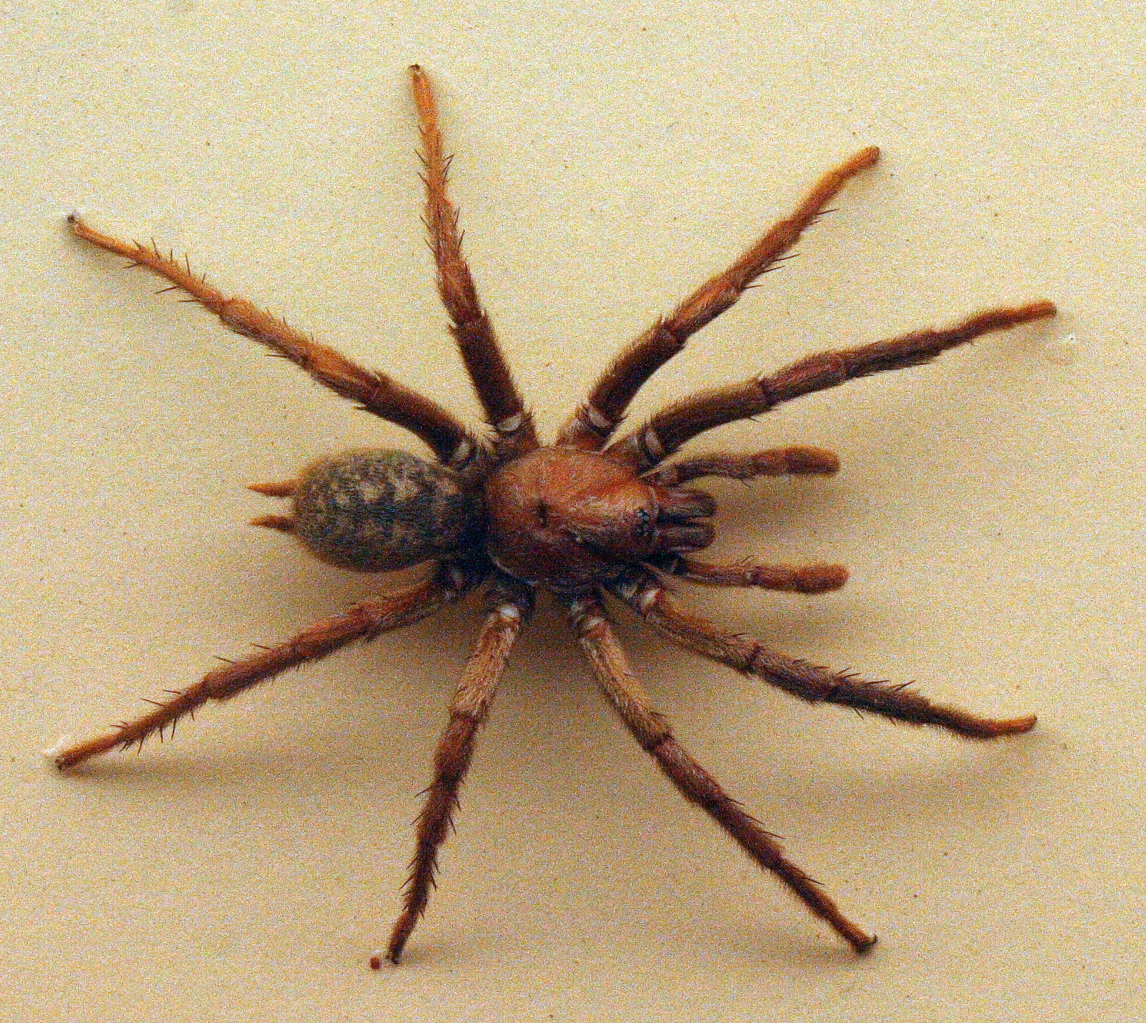 Specimen in the Australian Museum spider display.